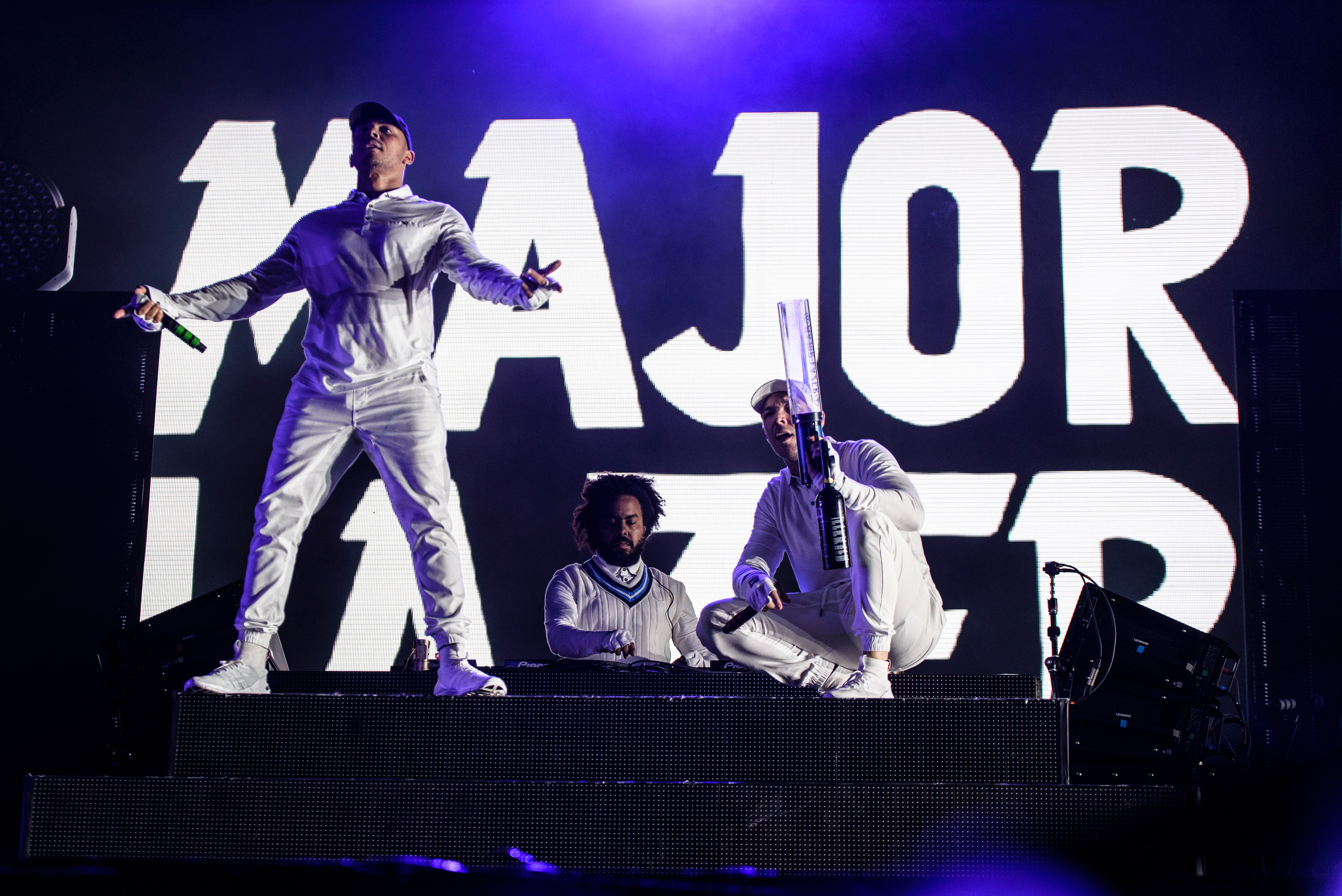 Major Lazer @ Rock im Park 2016